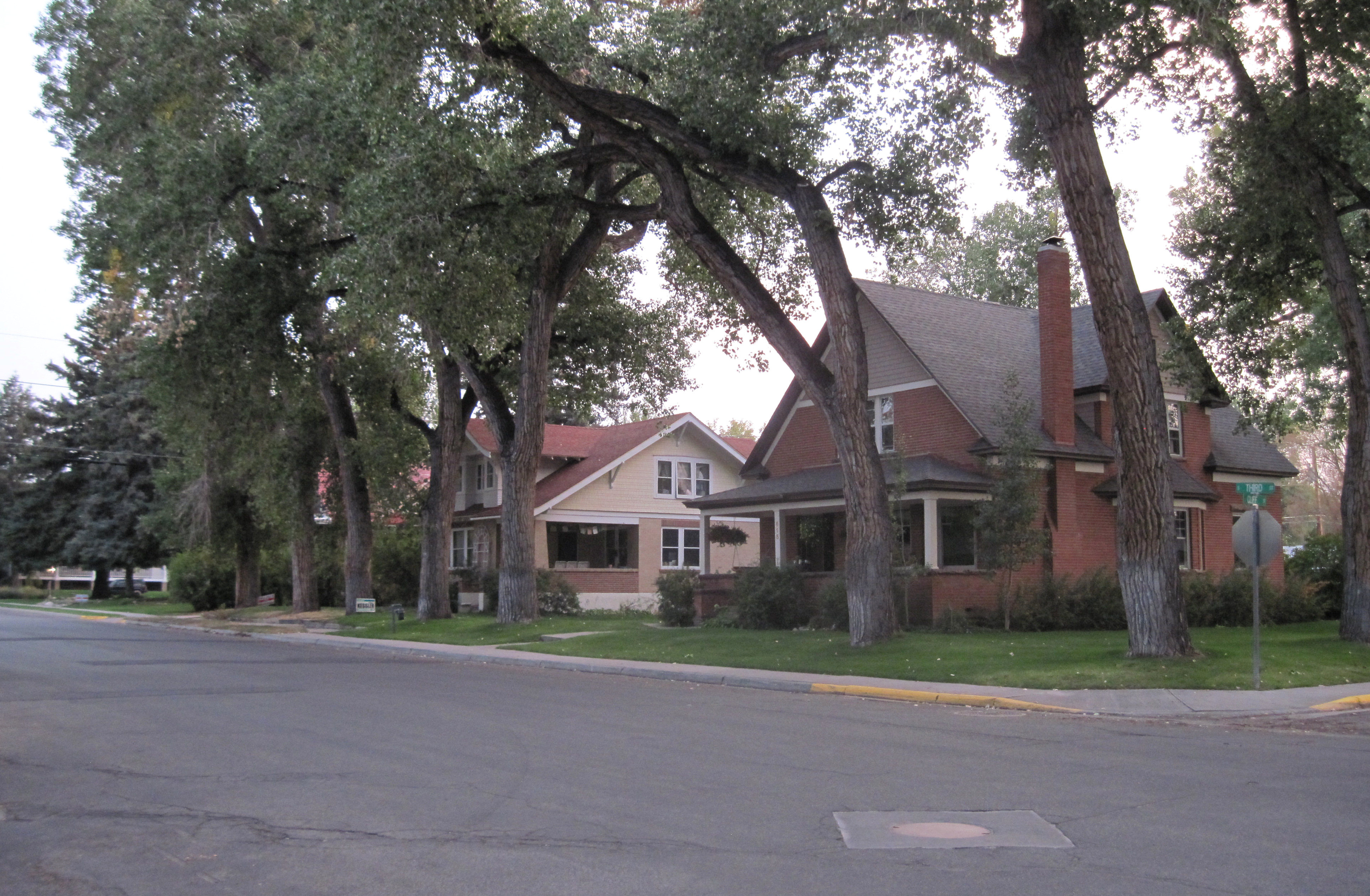 Jackson Park Town Site Addition Brick Row from the intersections of Cliff and Third Streets.